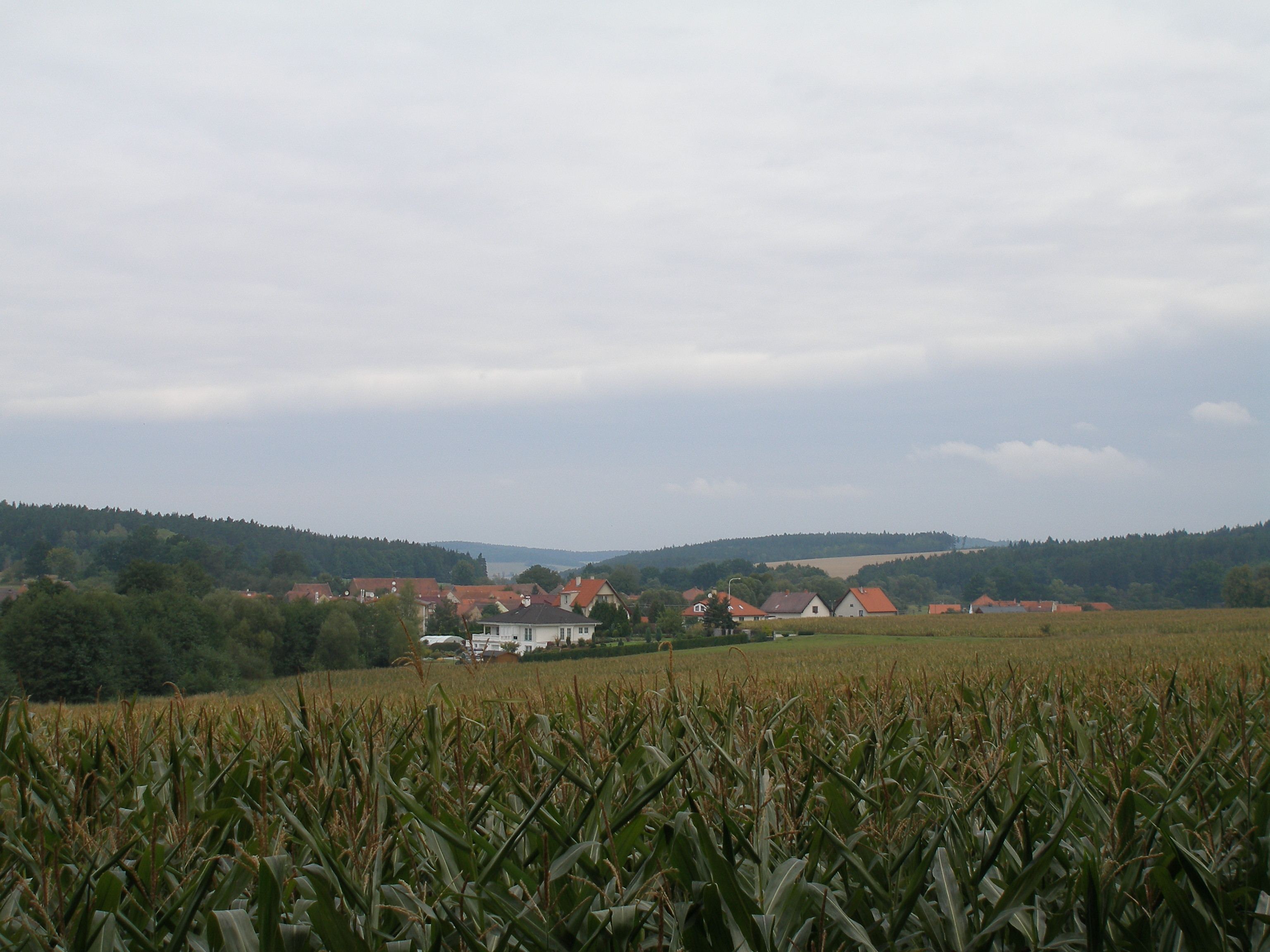 The general view of Biřkov